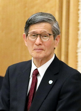 Shinzō Abe, Prime Minister, and Shigeru Omi, Chairman of the Advisory Committee on the Basic Action Policy, Advisory Council on Countermeasures against Novel Influenza and Other Diseases, Ministerial Meeting on Measures Against Avian Influenza, attended a press conference at the Prime Minister's Official Residence in Chiyoda Ward, Tōkyō Metropolis on April 7, 2020.